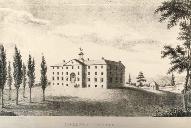 Drawing of West College, the original building of Dickinson College.